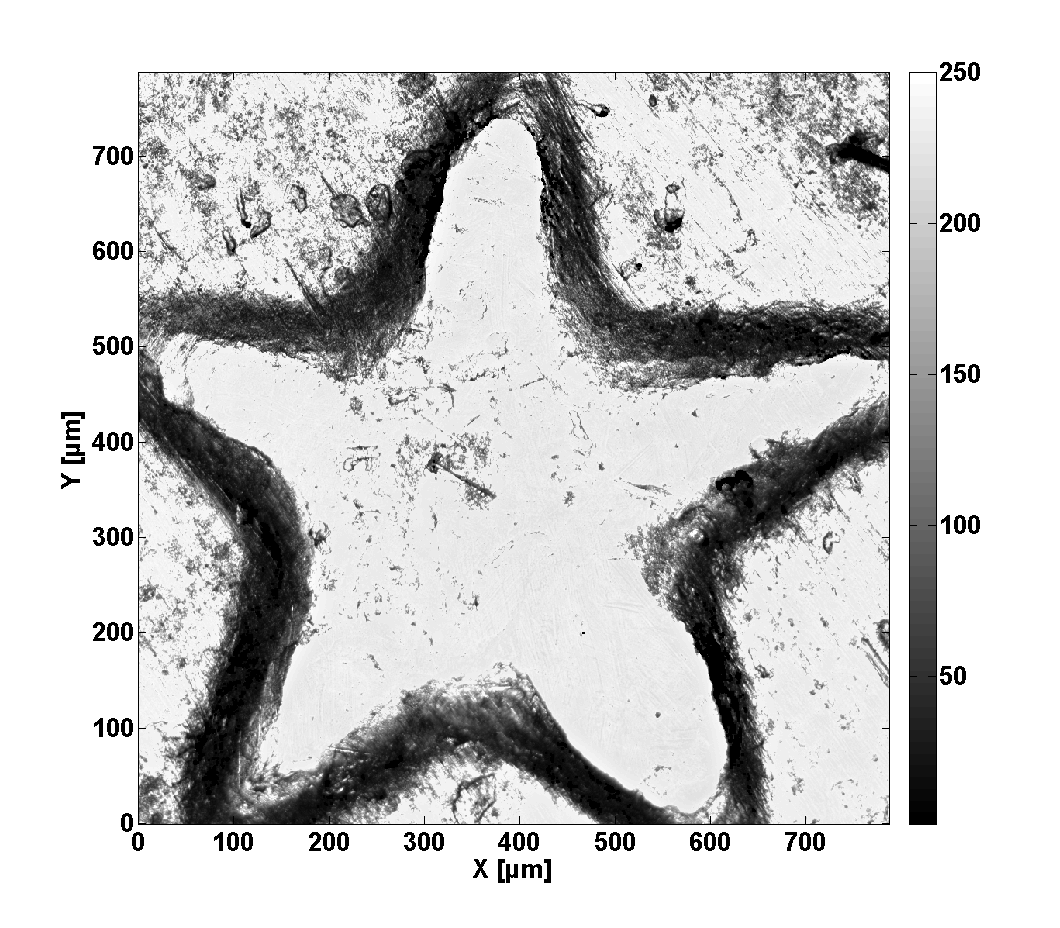 Reflection data of a confocal three dimensional measurement of a 1-euro coin's surface: One of the stars embossed on one side of the coin is shown. The measurement was performed with a µsurf confocal white light microscope from NanoFocus. The lateral range of the measurement is 800 µm by 800 µm (0.8 mm by 0.8 mm), the vertical range is approximately 60 µm (0.06 mm). Compared to a normal microscopic image the depth of field is very large.